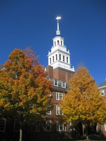 Picture of Lowell House belltower